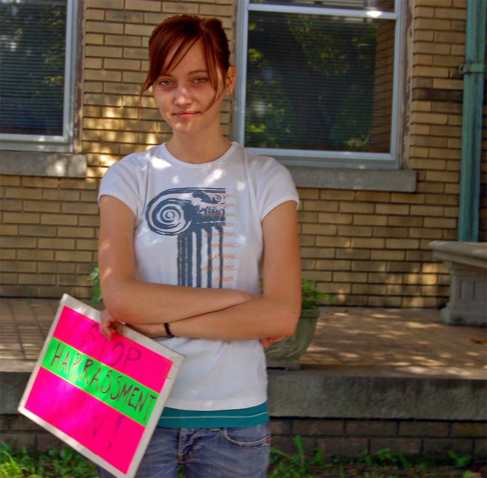 In front of the Richmond Women's Medical Center, standing opposite a gang of abortion protesters. Boulevard; Richmond VA